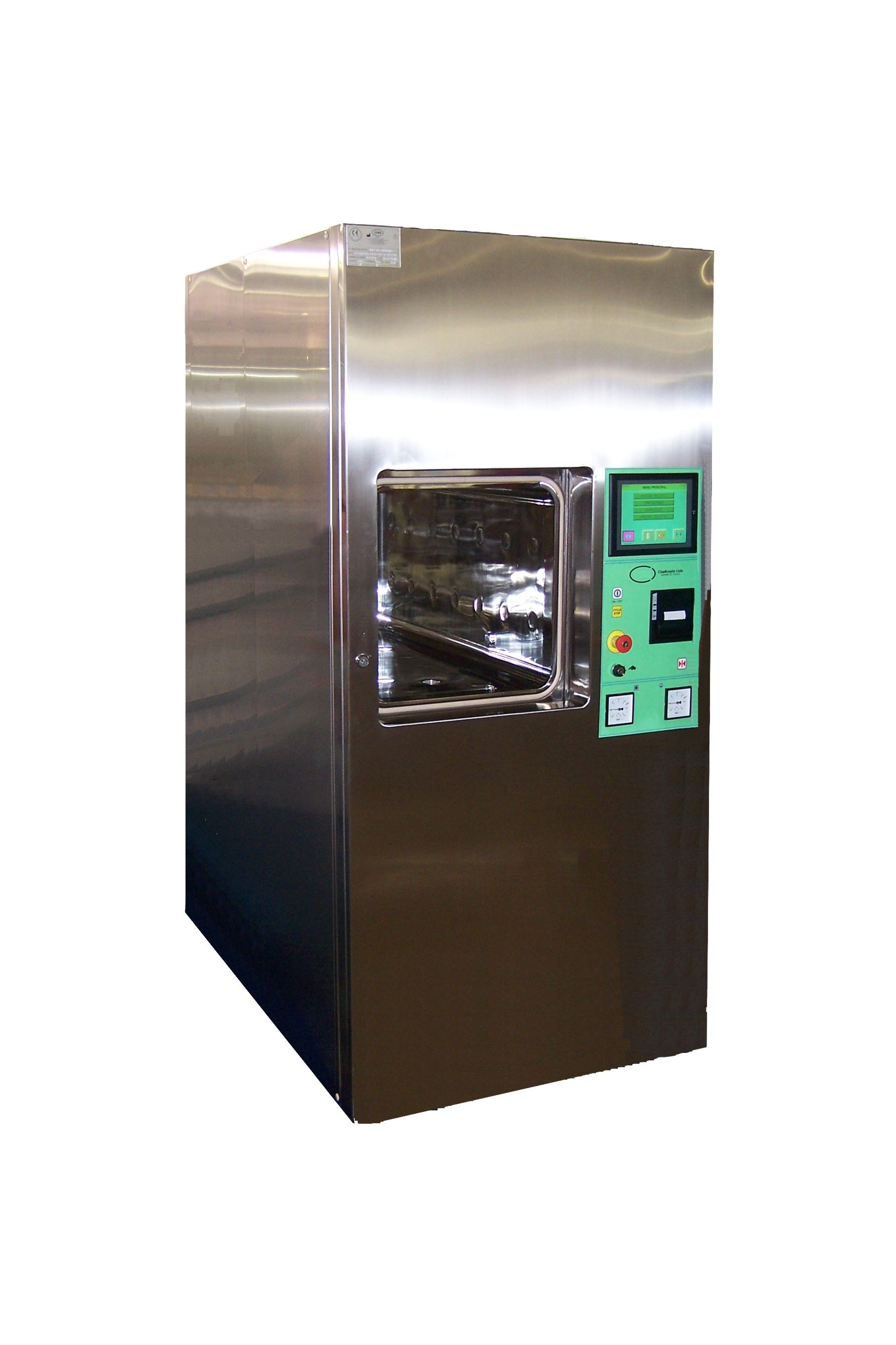 AUTOCLAVE HORIZONTAL AUTOMÁTICA DE 200 LITROS